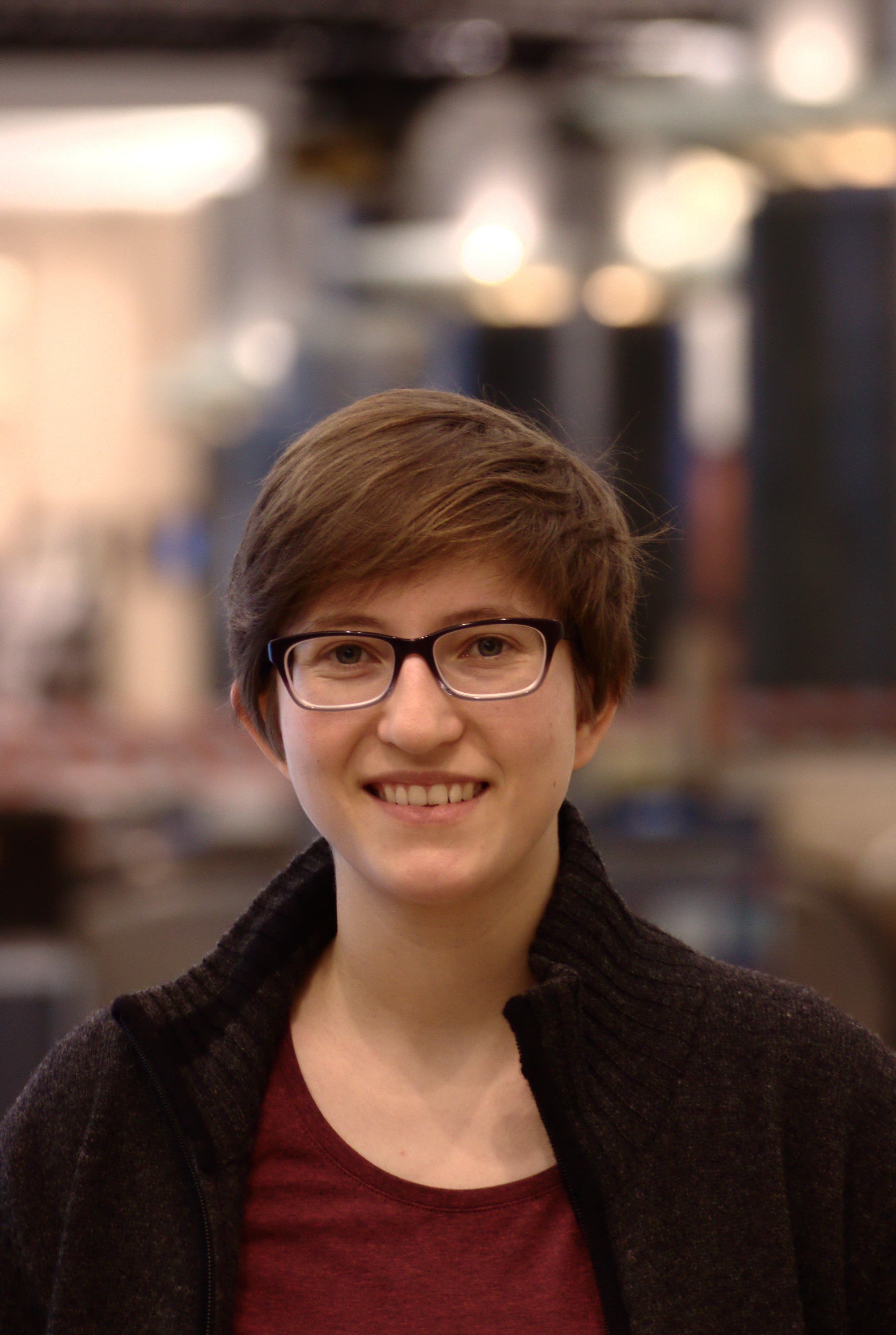 Julia Reda from the German Pirate Party Personality rights warningAlthough this work is freely licensed or in the public domain, the person(s) shown may have rights that legally restrict certain re-uses unless those depicted consent to such uses. In these cases, a model release or other evidence of consent could protect you from infringement claims.